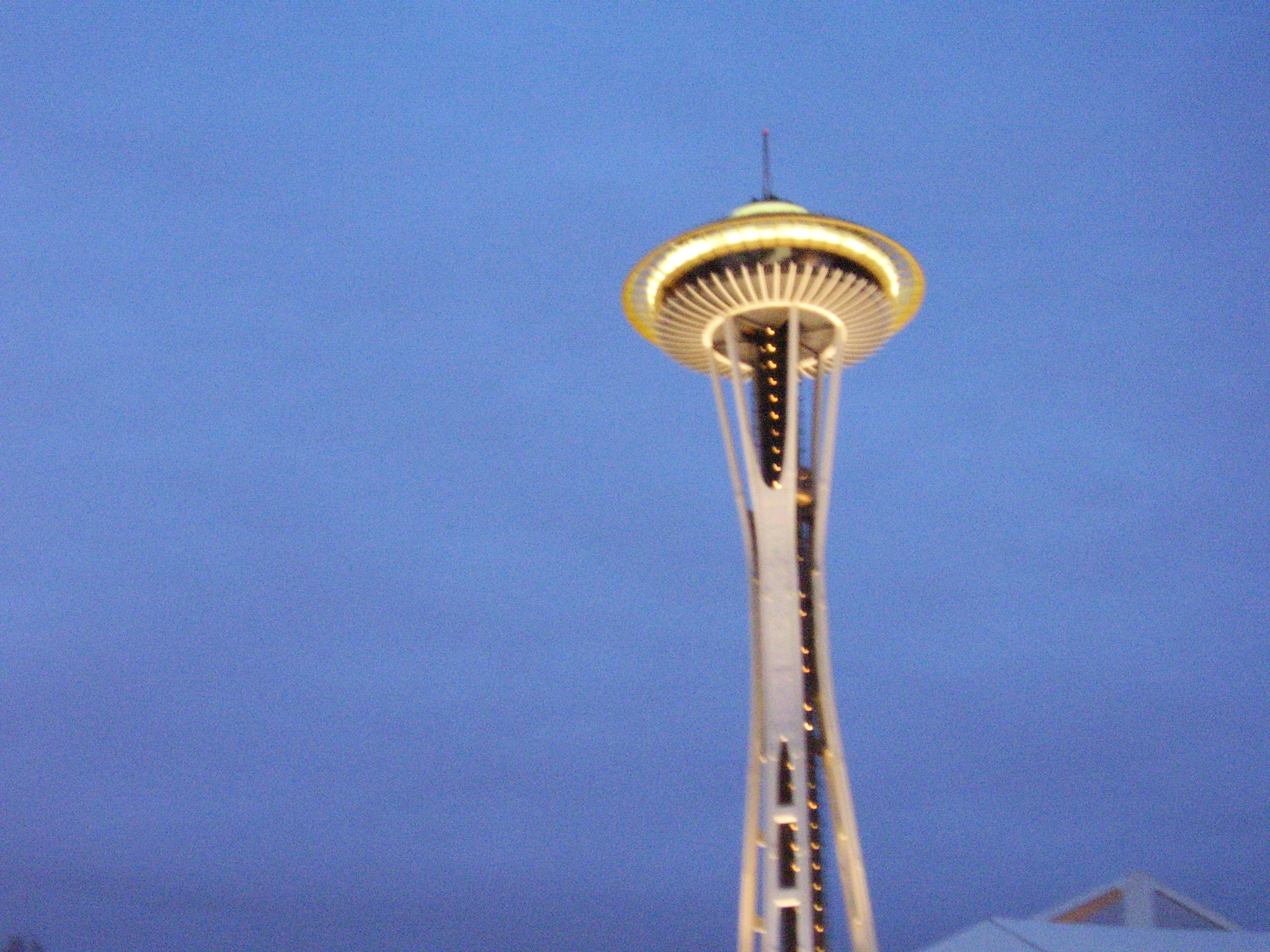 Seattle, Space Needle, USA